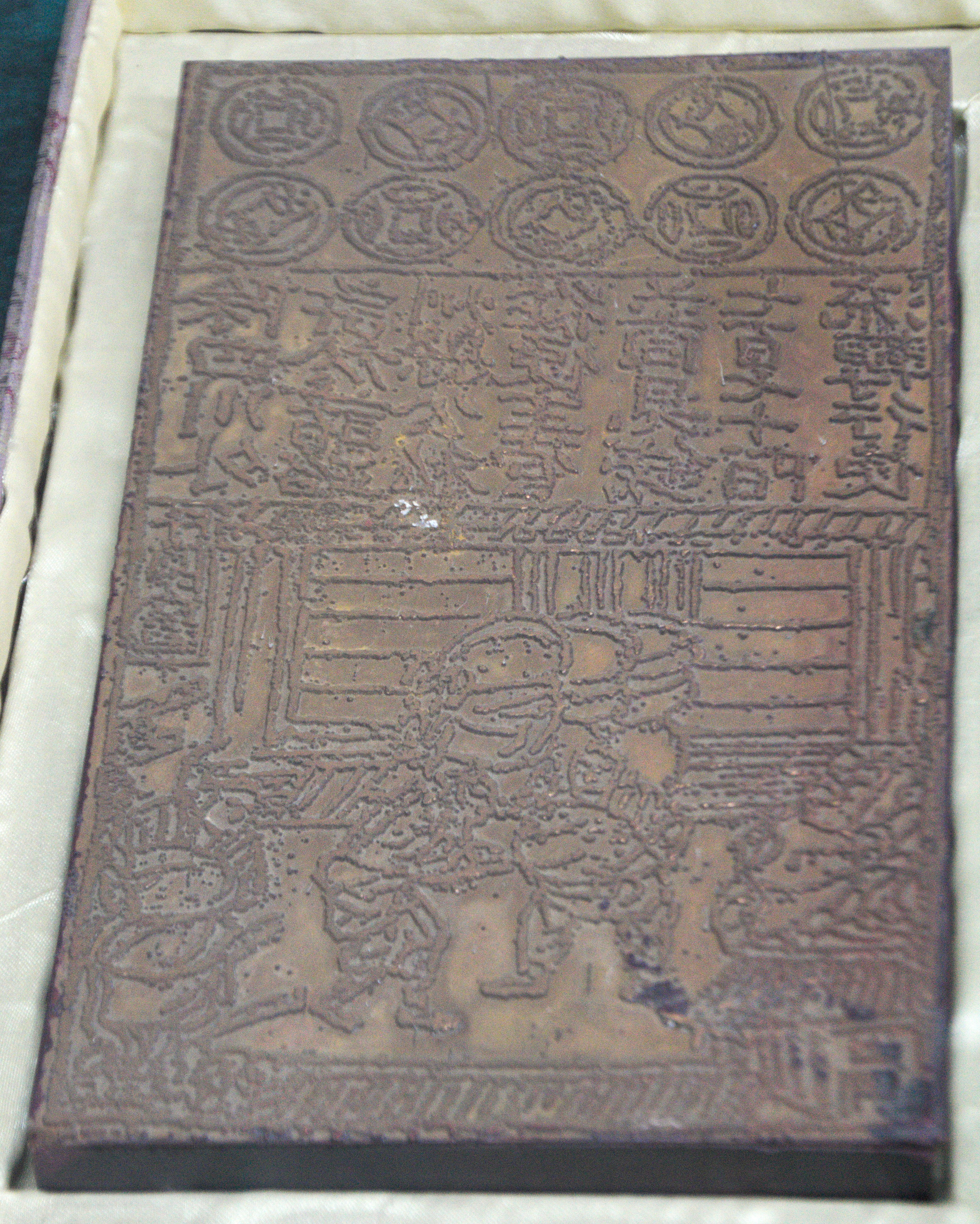 Banknote printing plate from Northern Song Dynasty (960 – 1127).